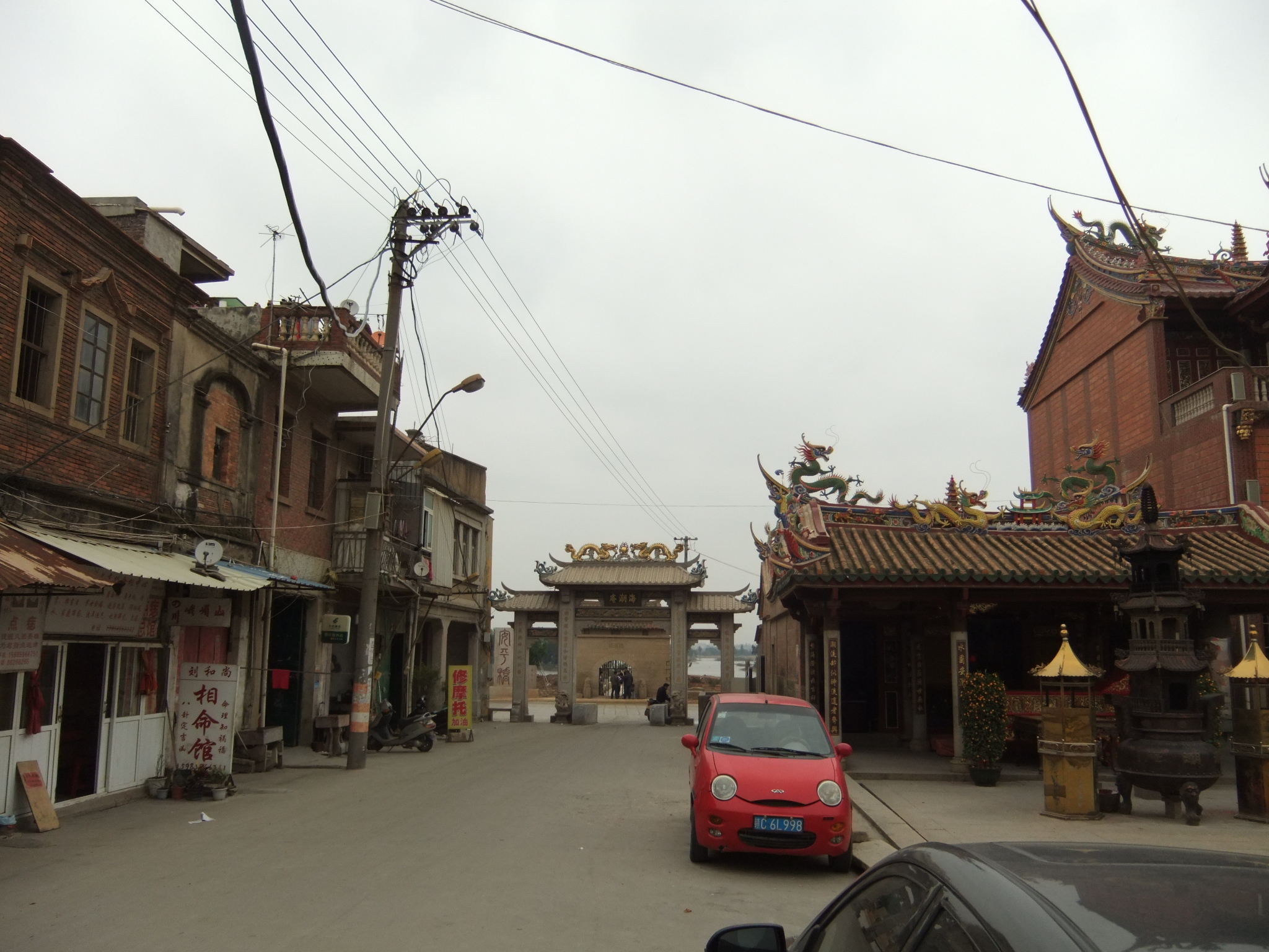 An old neighborhood of Shuitou Town, just west of the western end of Anpin Bridge. One enters the town through an arch inscribed 海潮庵 (Hai chao an); there is a small temple just to the south of it. One then can go west along an old-fashioned commercial street - which, probably, has existed at this location in various forms since the bridge was built during the Song Dynasty.